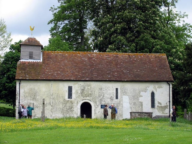 All Saints, Little Somborne, Hants